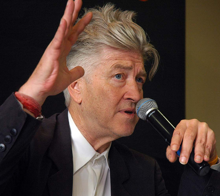 David Lynch, photographed on 10 August 2007.